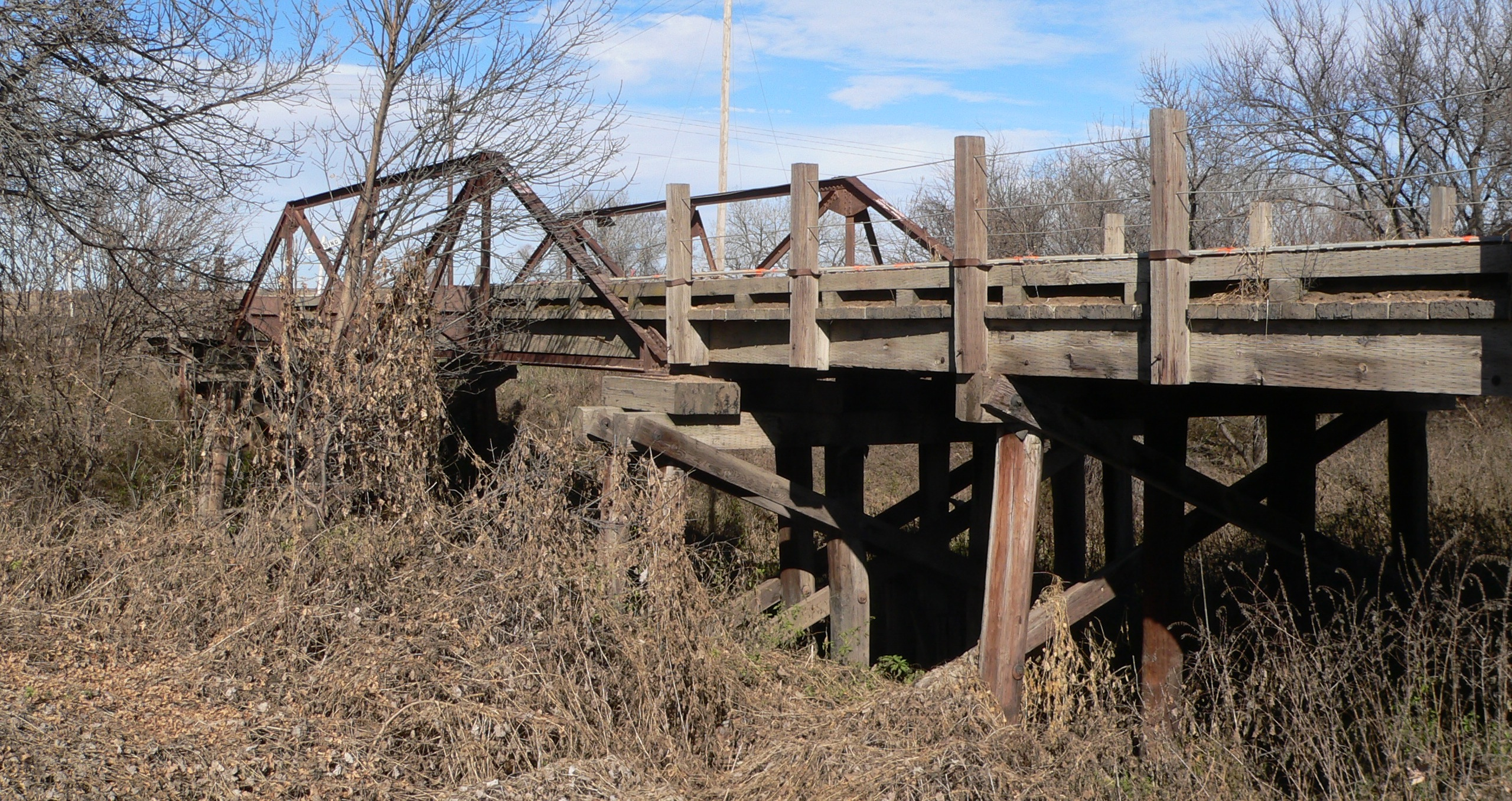 Sappa Creek Bridge in Harlan County, Nebraska. The bridge is located on County Road D just south of Nebraska Highway 89, about two miles east of Stamford. The picture was taken facing northeast (downstream). The Pratt pony truss bridge was built in 1916 by the Illinois Steel Co. and the Milwaukee Bridge Co. It is still in use. The bridge is listed in the National Register of Historic Places.